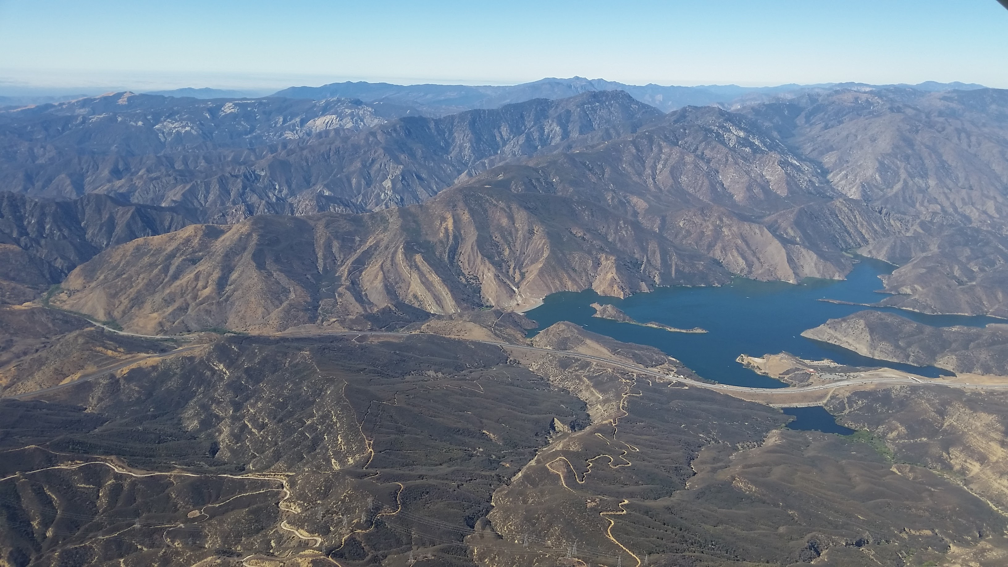 Pyramid Lake as seen from the air, in the Los Padres National Forest in Los Angeles County, California.